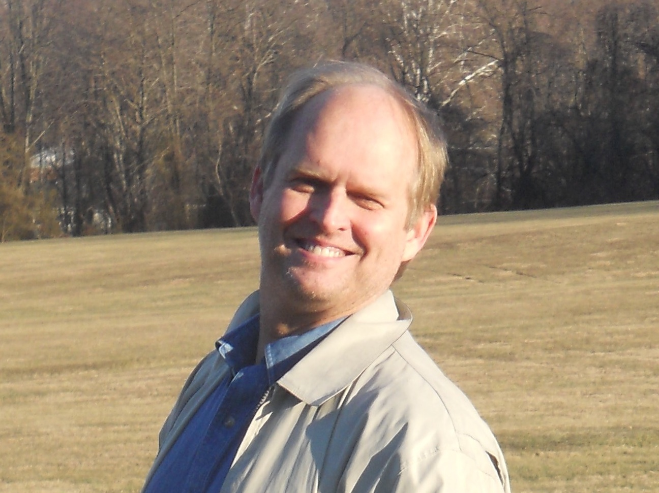 Robin Hanson in Fairfax